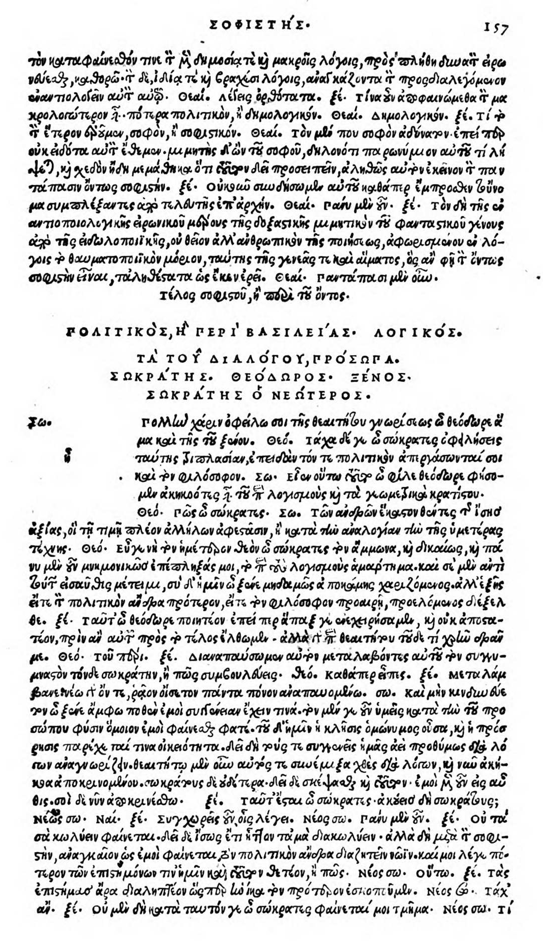 Politikos beginning. Editio princeps, Venice 1513.